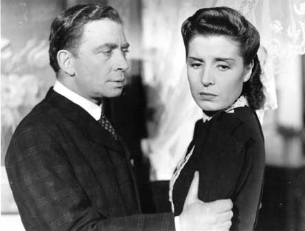 Nicolas Fregues y Sabina Olmos en El canto del Cisne- película argentina